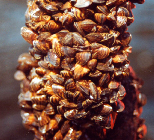 Examples of Alien Species in Europe and the Mediterranean Basin. The zebra mussel (Dreissena polymorpha), introduced from Russia via shipping canals to non-native areas in Europe in the 18th and 19th centuries and later to North America, where it has large negative impacts